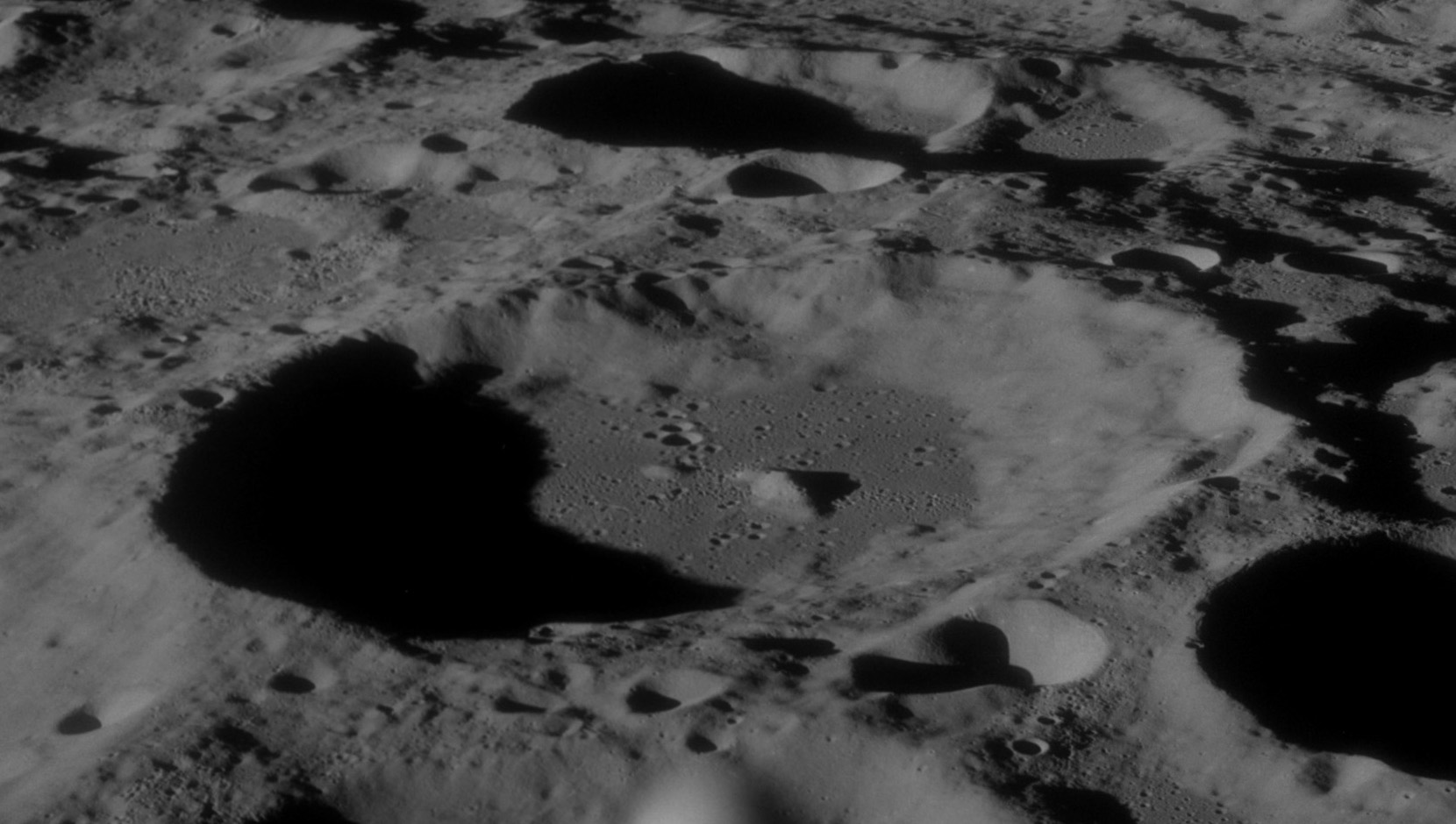 Oblique view of Lebedinskiy crater, on the far side of the moon. Facing north. The blur in the foreground is part of the spacecraft.